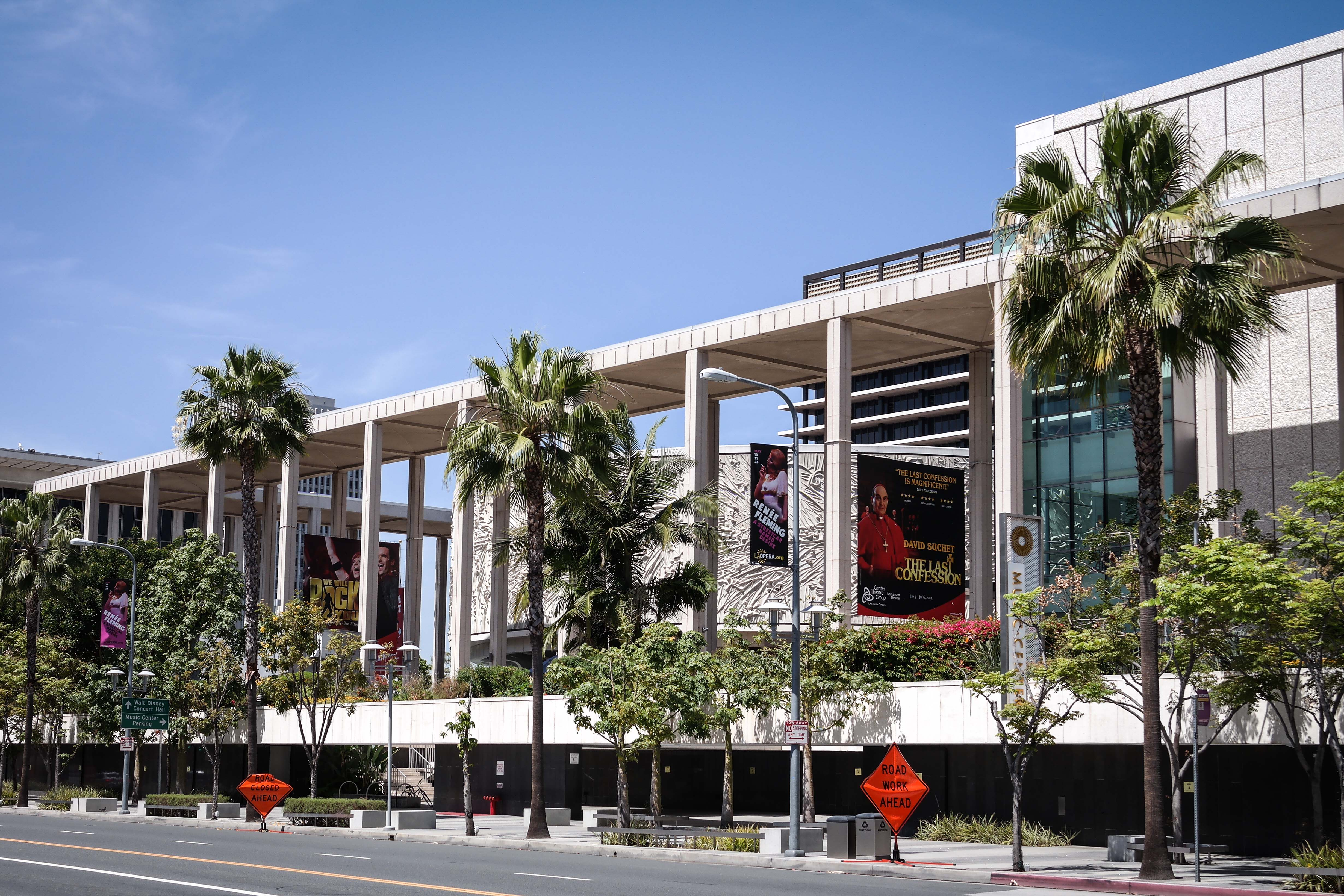 Ahmanson Theatre, a venue at the Los Angeles Music Center